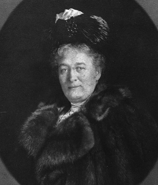 Mrs. James Ross, about 1900